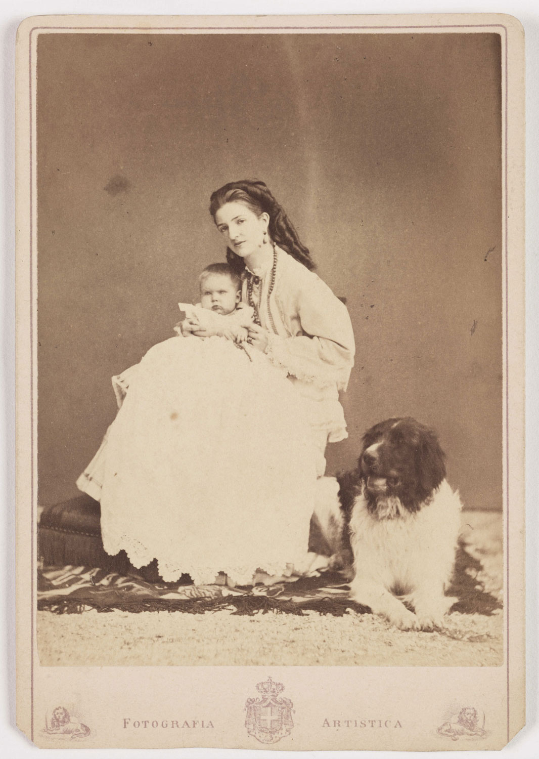 Princess of Piedmont, with her Baby and Dog. Collection of (National Media Museum (photographer unknown).